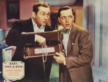 Lobby card for the 1934 film "Baby Take a Bow", featuring James Dunn and Ray Walker